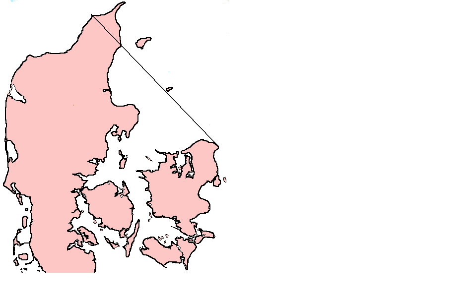 Map showing the line that marks the tilting of Denmark. To the south west the land is sinking while it is lifting to the north east. Based on the blank location map of Denmark.